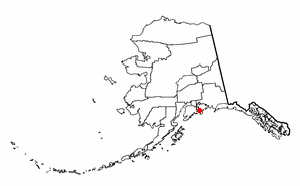 Adapted from Wikipedia's AK borough maps by Seth Ilys.